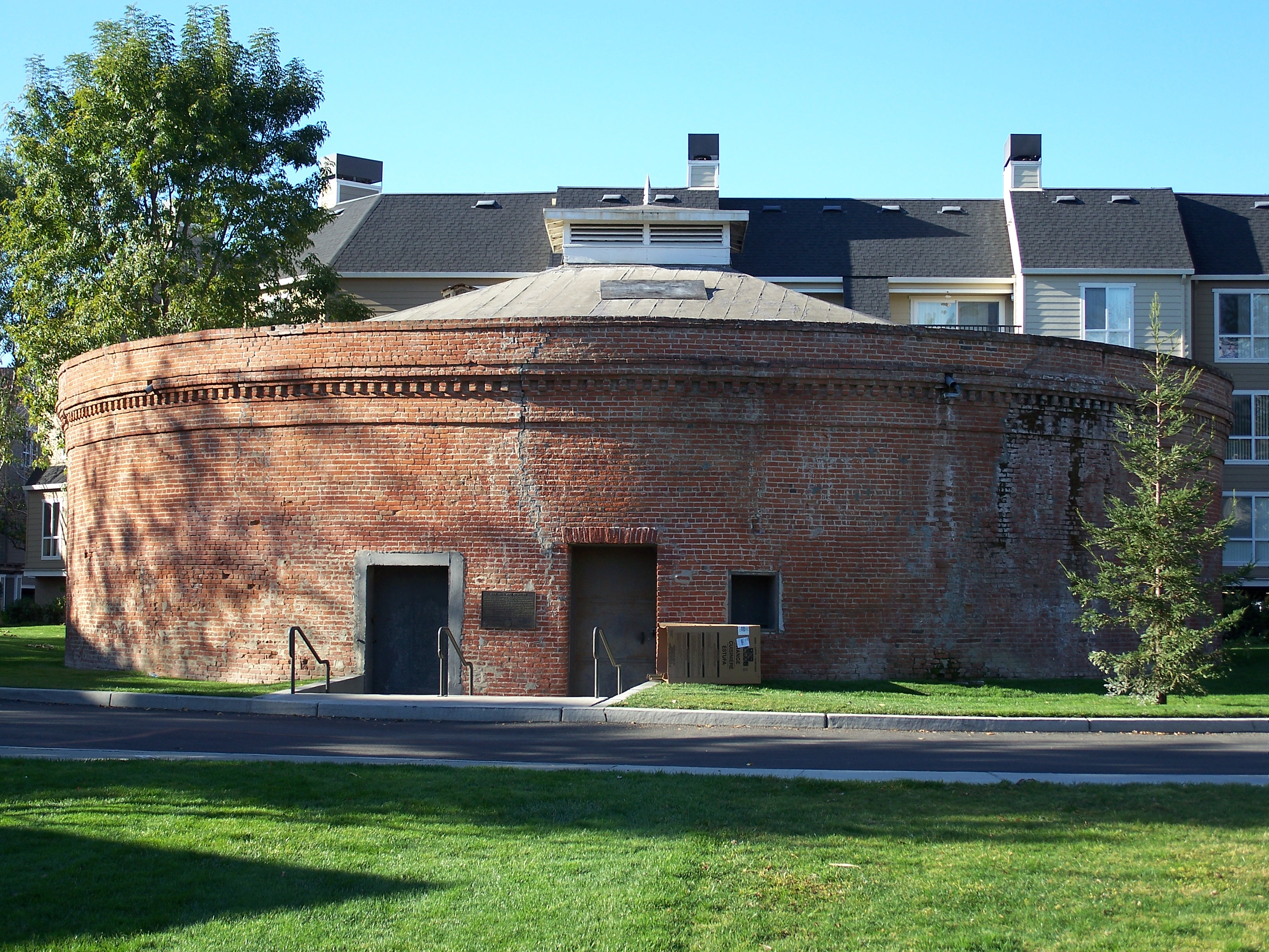 James Lick mill and granary. 554 Mansion Park Drive. Santa Clara, California, USA More details about subject